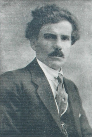 Bulgarian politican Stoyan Omarchevski (1885-1941)